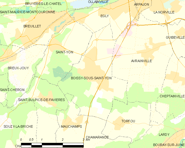 Map of French municipality Boissy-sous-Saint-Yon